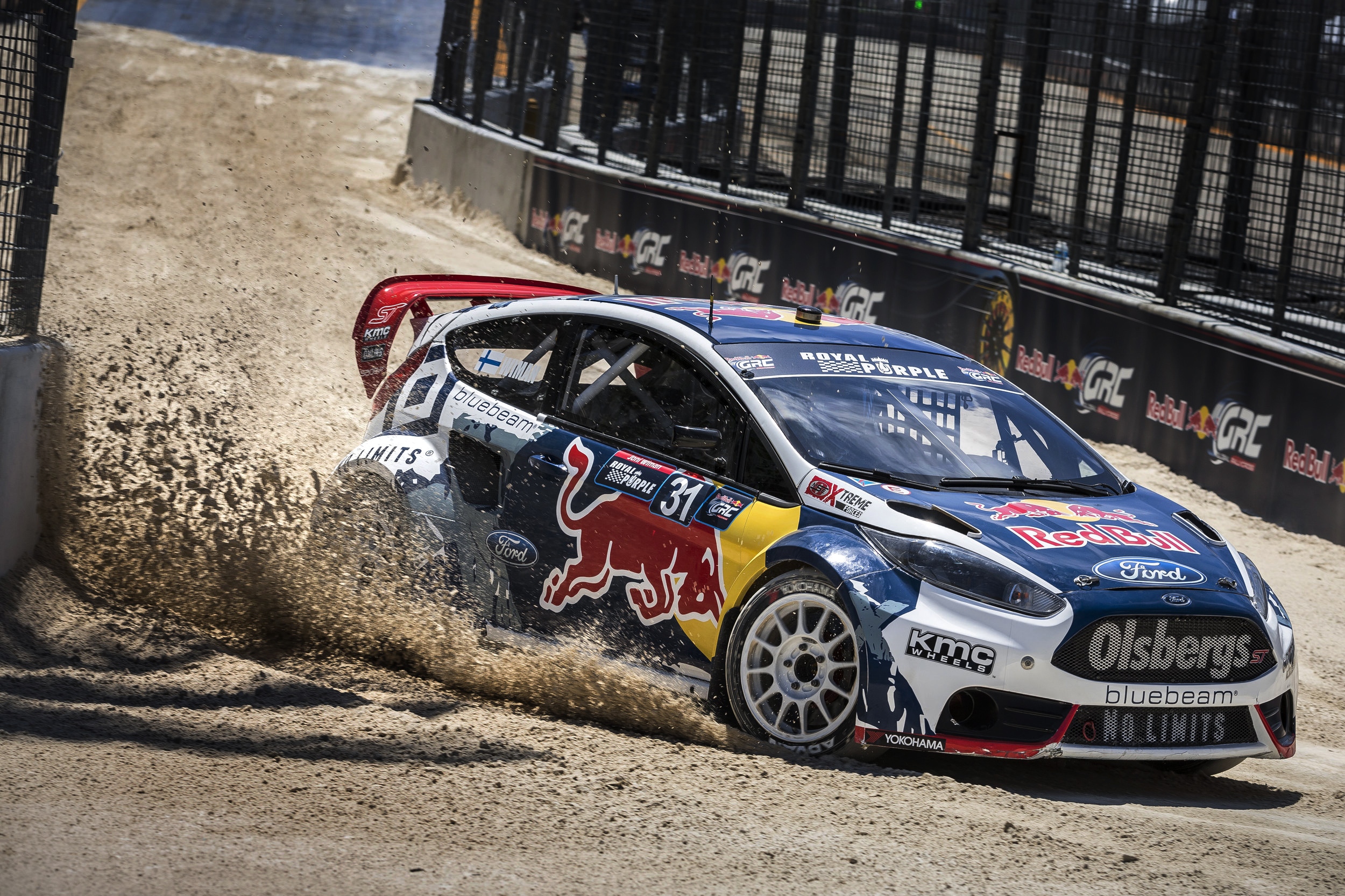 Joni Wiman in his Ford Fiesta ST Supercar at Round 1 of the 2015 Global RallyCross Championship at Bahia Mar Resort & Marina, Ft. Lauderdale, Florida.